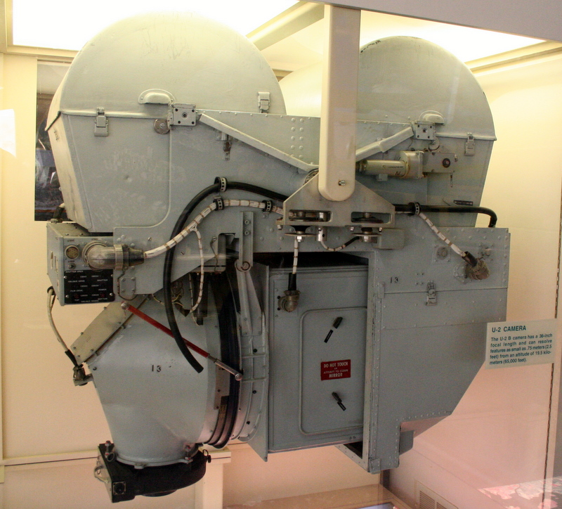 Model "B" camera used aboard the Lockheed U-2